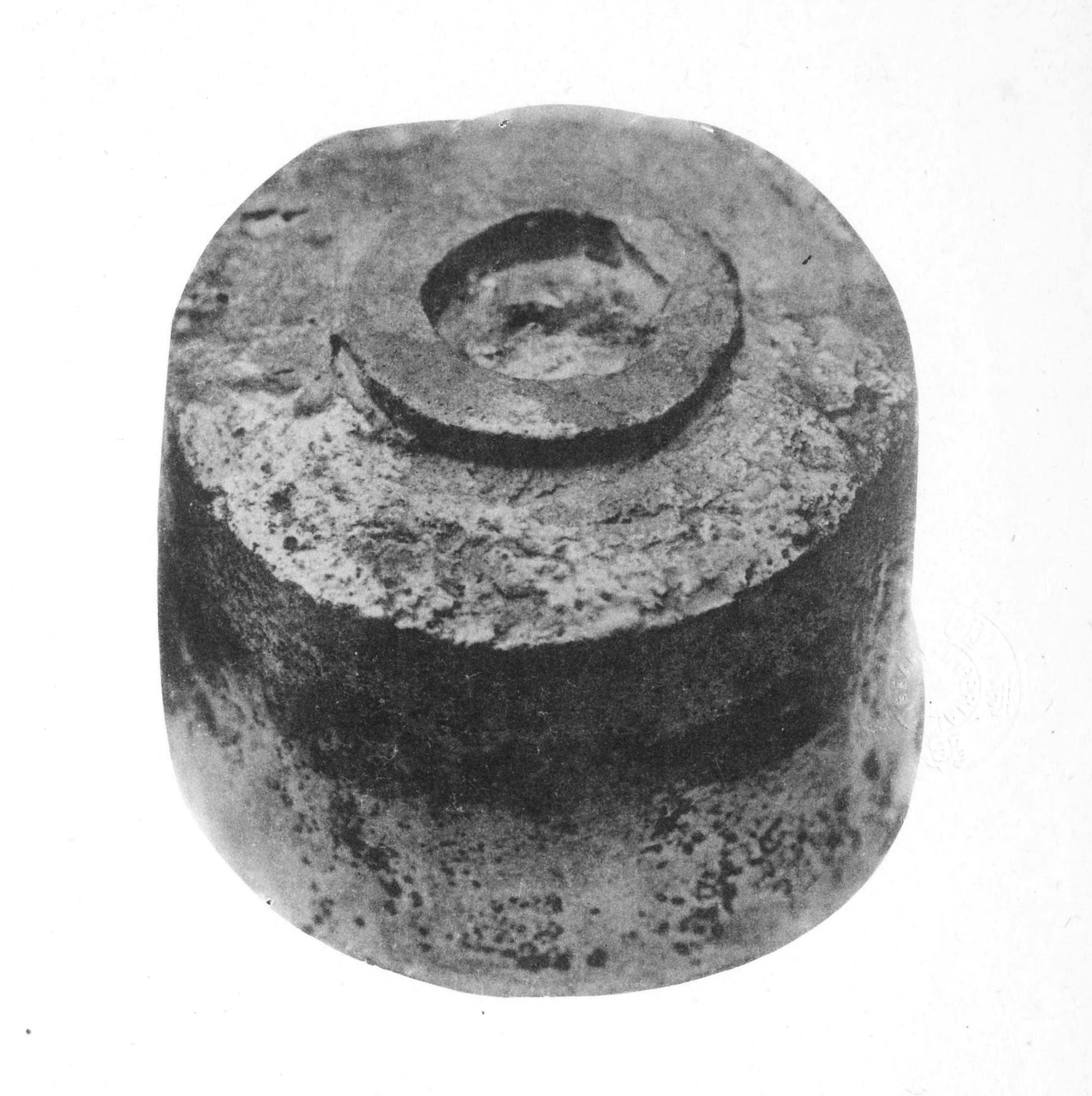 Honami Kōetsu 'Fujisan'.